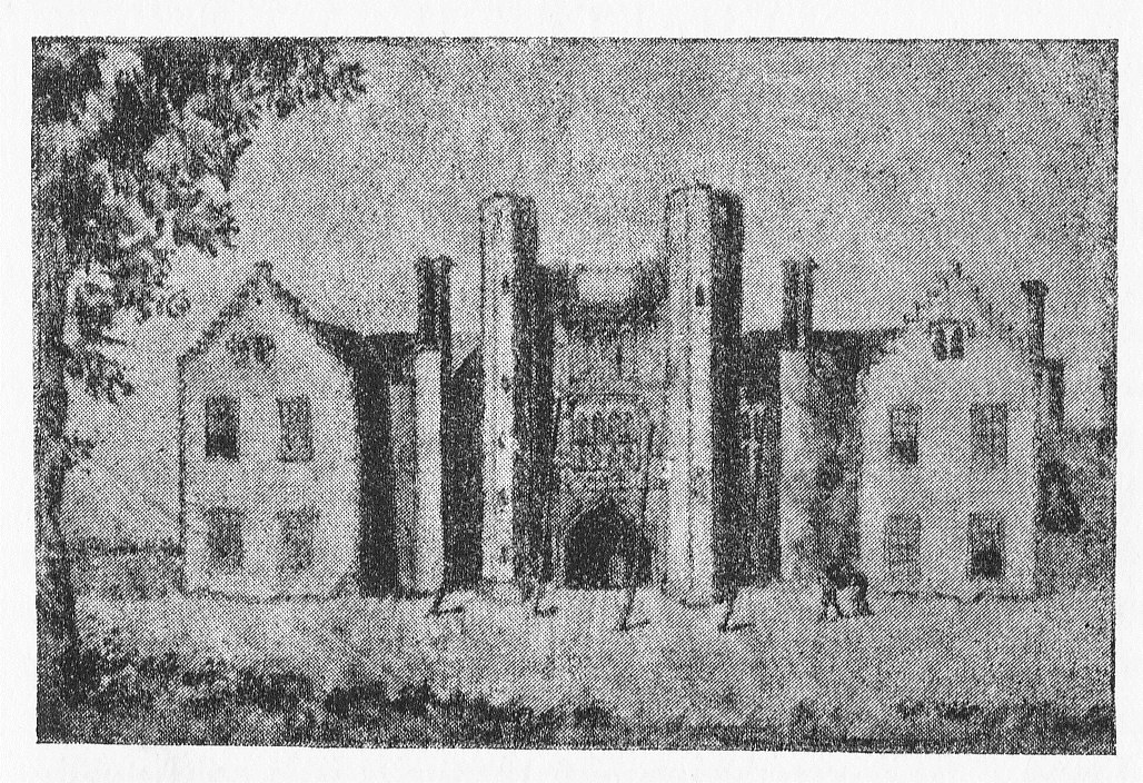 Original gatehouse of Sutton Place, Guildford, 1520's. Formed north wing, demolished 1782.